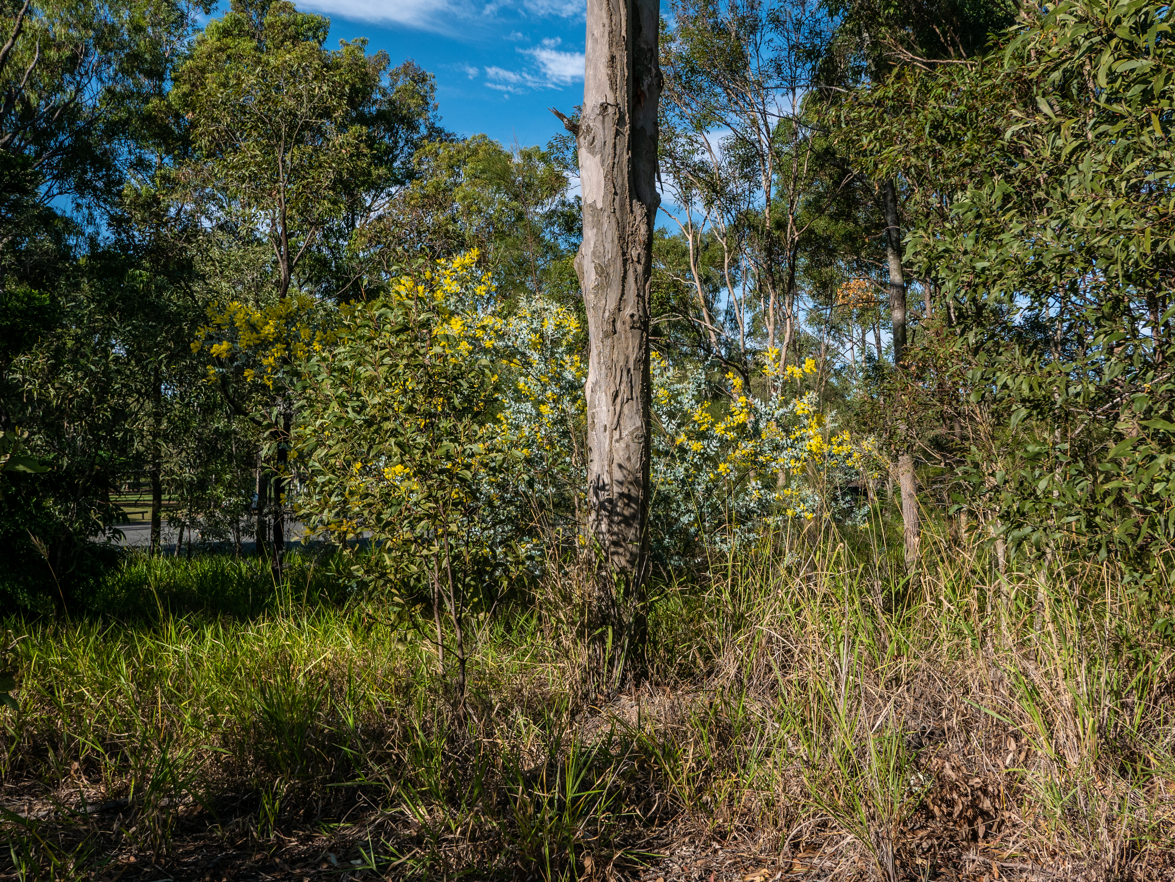 Acacia podalyriifolia, the Queensland silver wattle, is a medium to large sized shrub in 7th Brigade Park. It is found in revegetation plantings and naturalised in open forest. It has an extensive soil seedbank and sprouts in areas disturbed mechanically or by fire. Its glaucous phyllodes and golden yellow flowers make it very conspicuous.